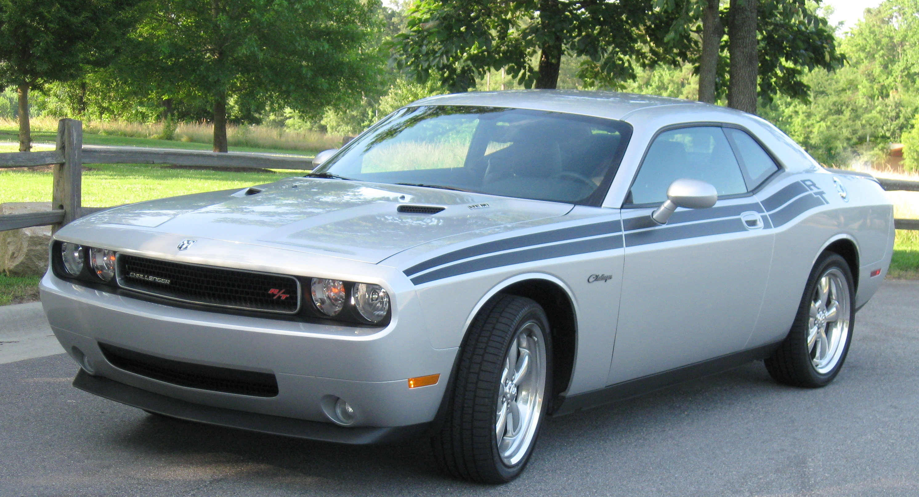 2010 Dodge Challenger R/T Classic